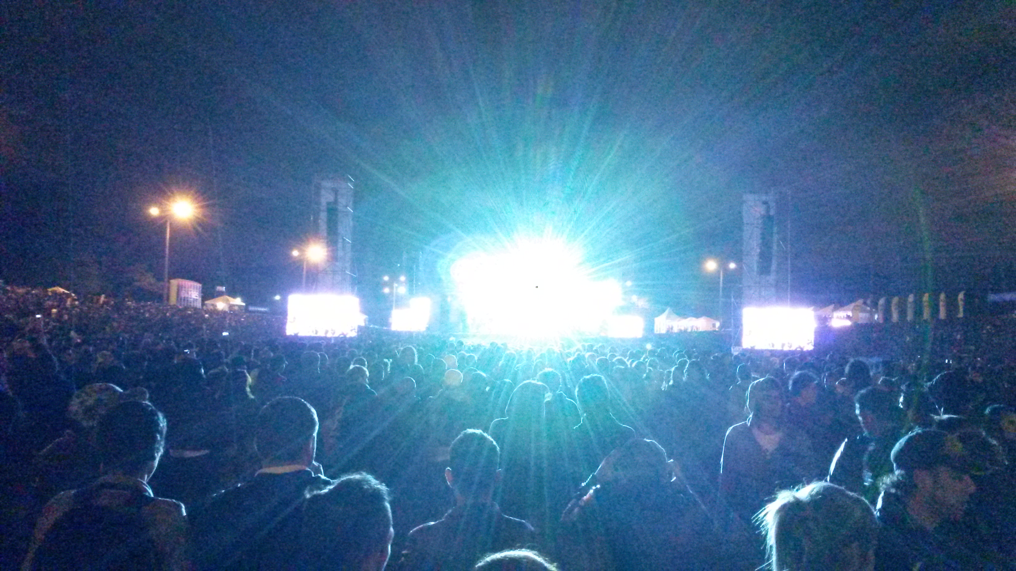 Night view of the main stage of the third day of Rock al Parque 2015